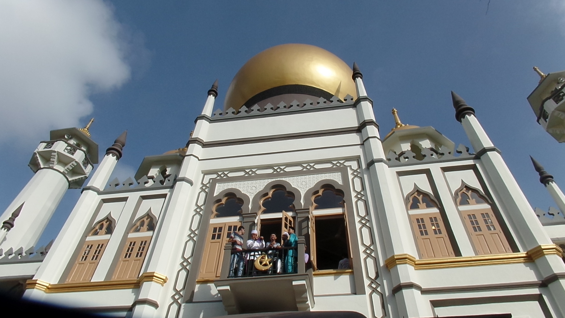 Masjid Sultan